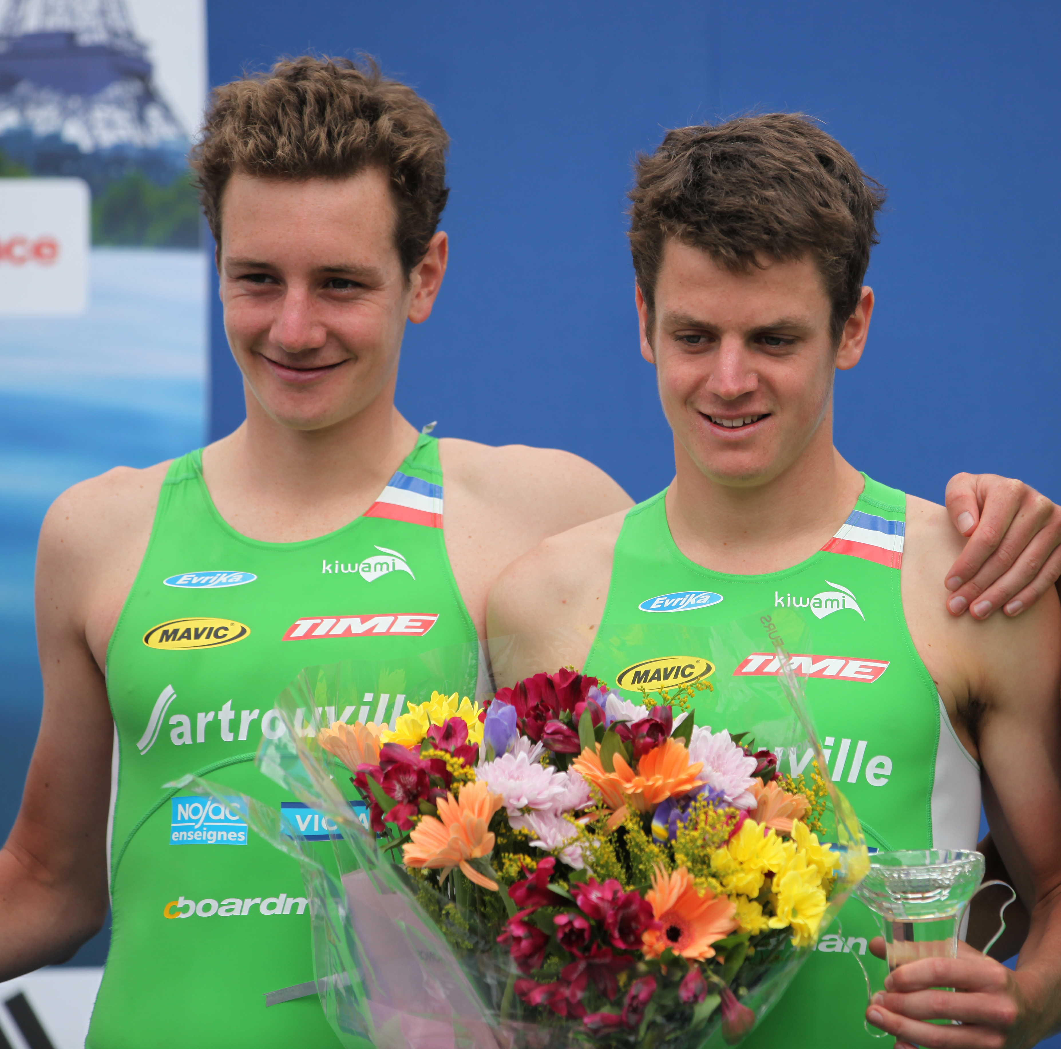 Alistair and Jonathan Brownlee at the French Club Championship Series triathlon in Paris, 2011.